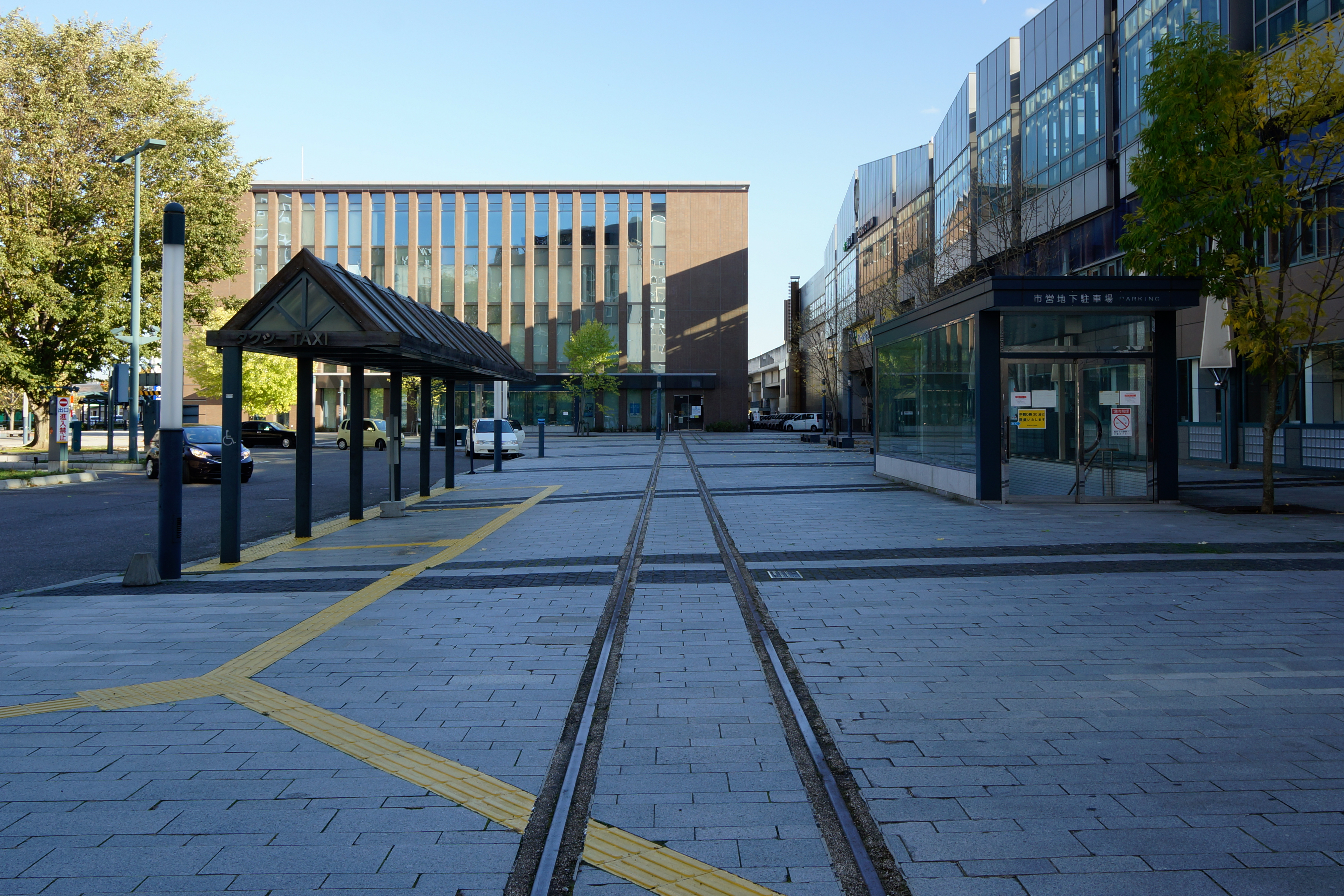 Obihiro Station in Obihiro, Hokkaido prefecture, Japan.